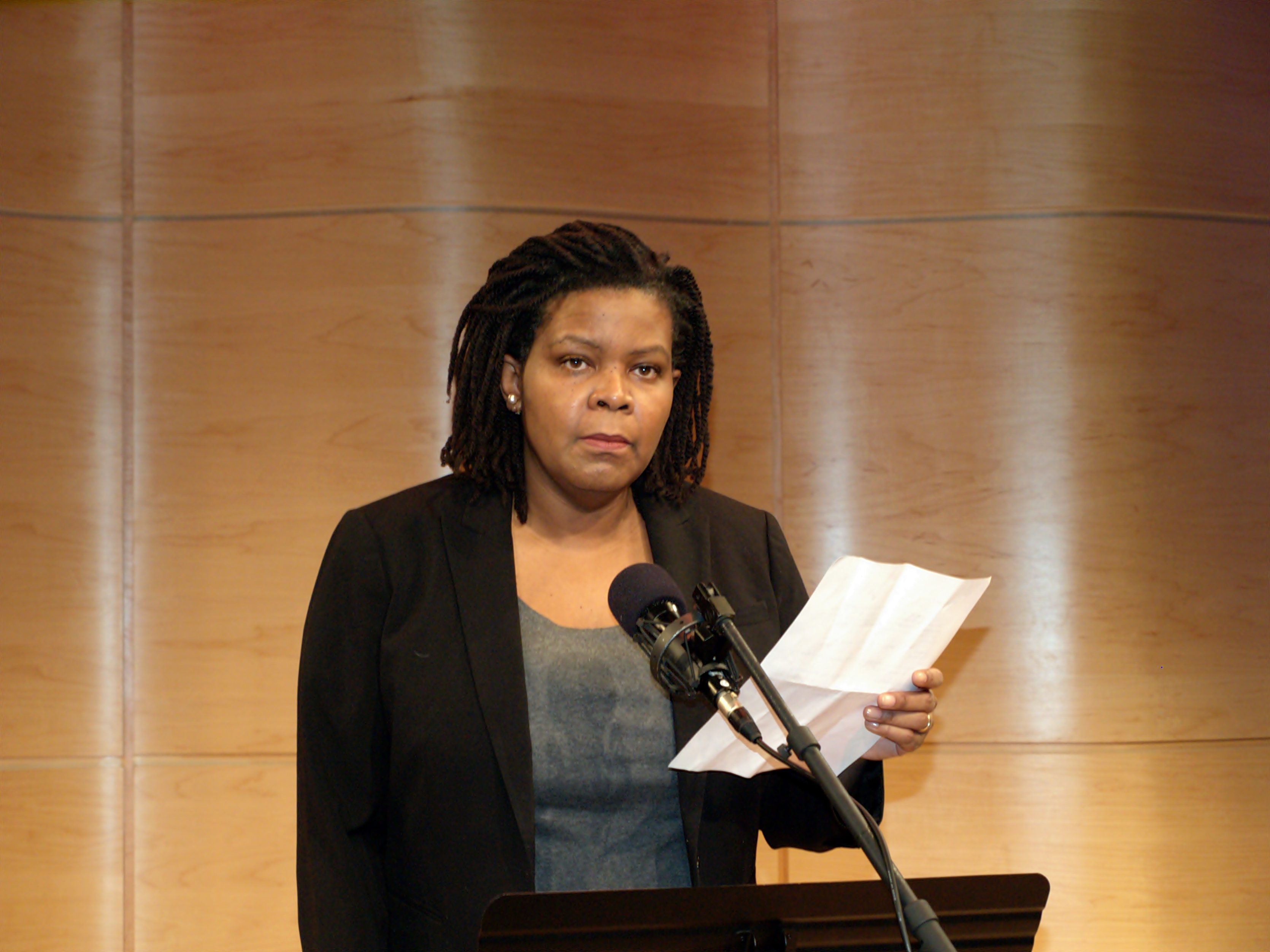 Annette Gordon-Reed announcing the five 2010 National Book Critics Circle finalists in nonfiction.